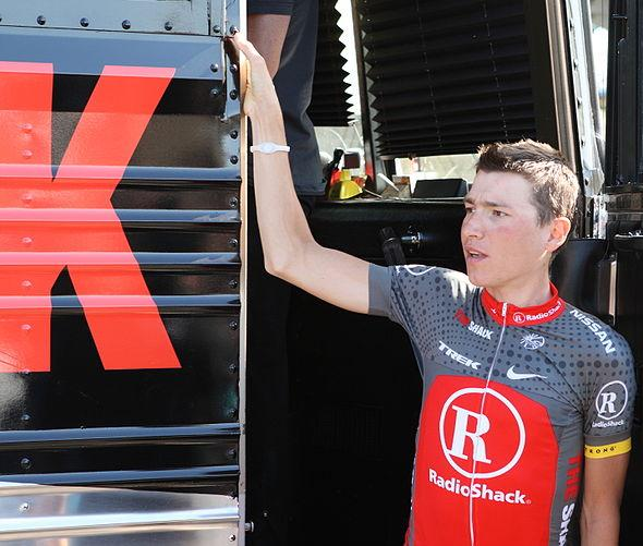 Jani Brajkovič at Tour of California 2010.